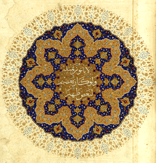 Description: from Smithsonian :Illuminated folio from a Koran (F1932.65) :16th century :Color and gold on paper :H: 42.0 W: 27.3 cm :Iran :Purchase, F1932.67